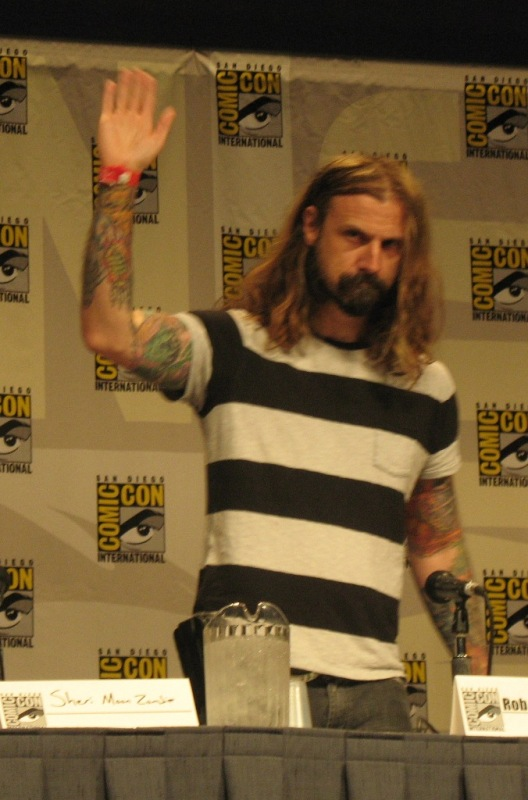 Rob Zombie attending the 2007 Comic-Con in San Diego, California to promote his remake of 'Halloween'.